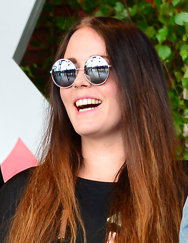 Miriam Bryant during the stage presentation to Allsång på Skansen in Stockholm June 11, 2013.